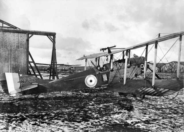 Sedgeford, England. Lieutenant (Lt) Charles Eaton, Royal Flying Corps (RFC) at the controls of a Martinsyde Elephant Type G100 fighter aircraft. This aircraft was allocated the number B872 after it was rebuilt by No 1 Southern Aircraft Repair Depot, South Farnborough and allocated to 110 Squadron RFC at Sedgeford. At this time 110 Squadron was conducting flying operations in the defence of London. This aircraft was fitted with synchronised machine guns that fired through the propeller but was fitted with one forward firing machine gun, mounted on top of the wing above the propeller, and one Lewis Gun mounted on the left hand side of the cockpit. The trigger mechanism to fire the wing mounted machine gun, a rod from the trigger to the cockpit, is clearly visible. Donor C Eaton.